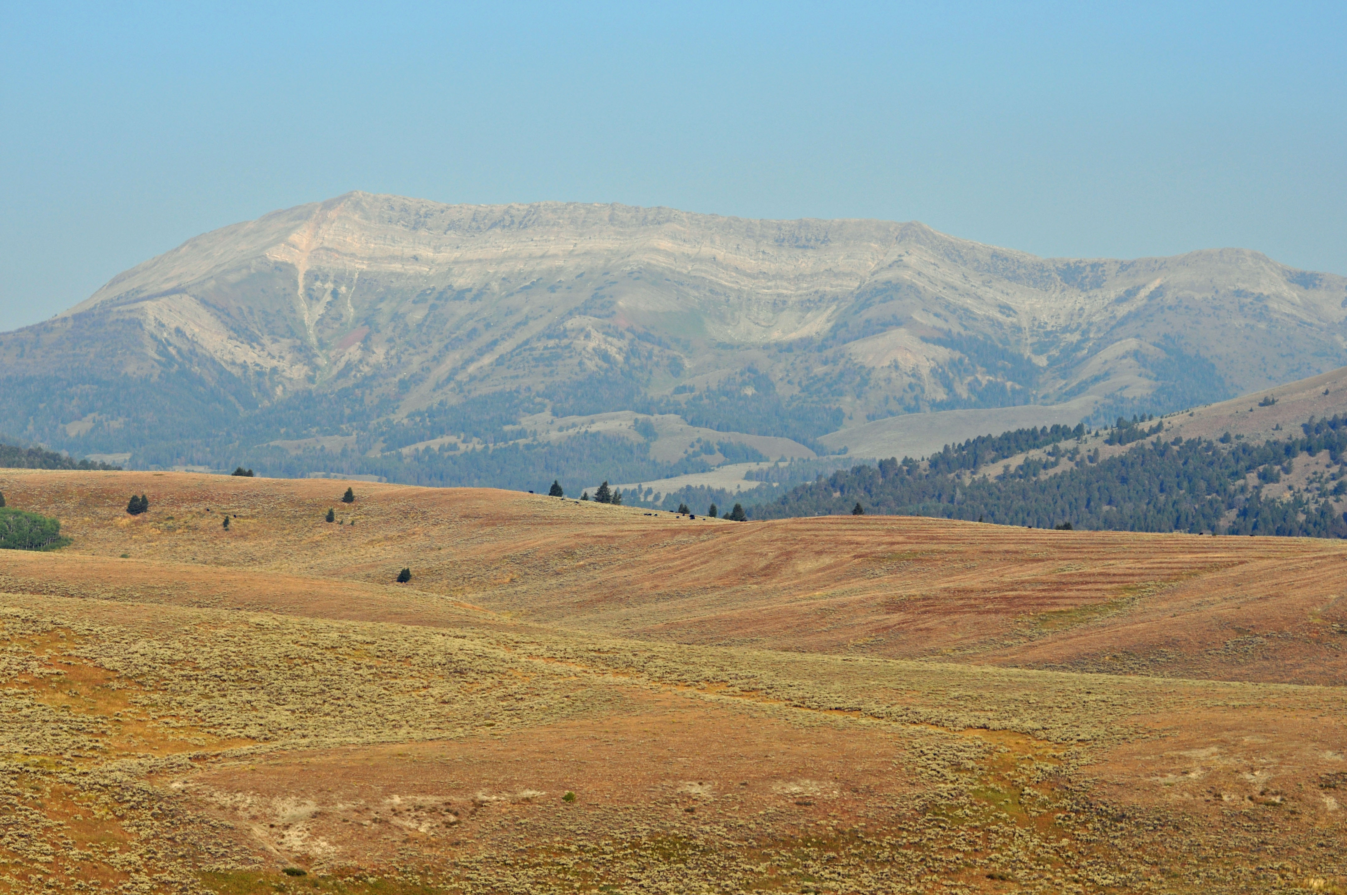 Hogback Mountain from Ruby River Valley, Snowcrest Range, August 2012